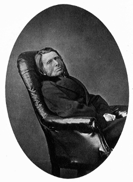 Portrait of John Ruskin. This was first published in Carroll's biography by his nephew: Collingwood, Stuart Dodgson (1898) The Life and Letters of Lewis Carroll, London: T. Fisher Unwin, pp. p. 158 Retrieved on 22 December 2010.